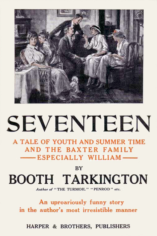 Front cover of the dustjacket for the first edition of Seventeen, a novel by Booth Tarkington